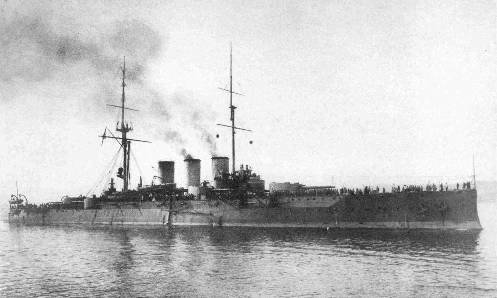 Arimoured cruiser Ryurik.